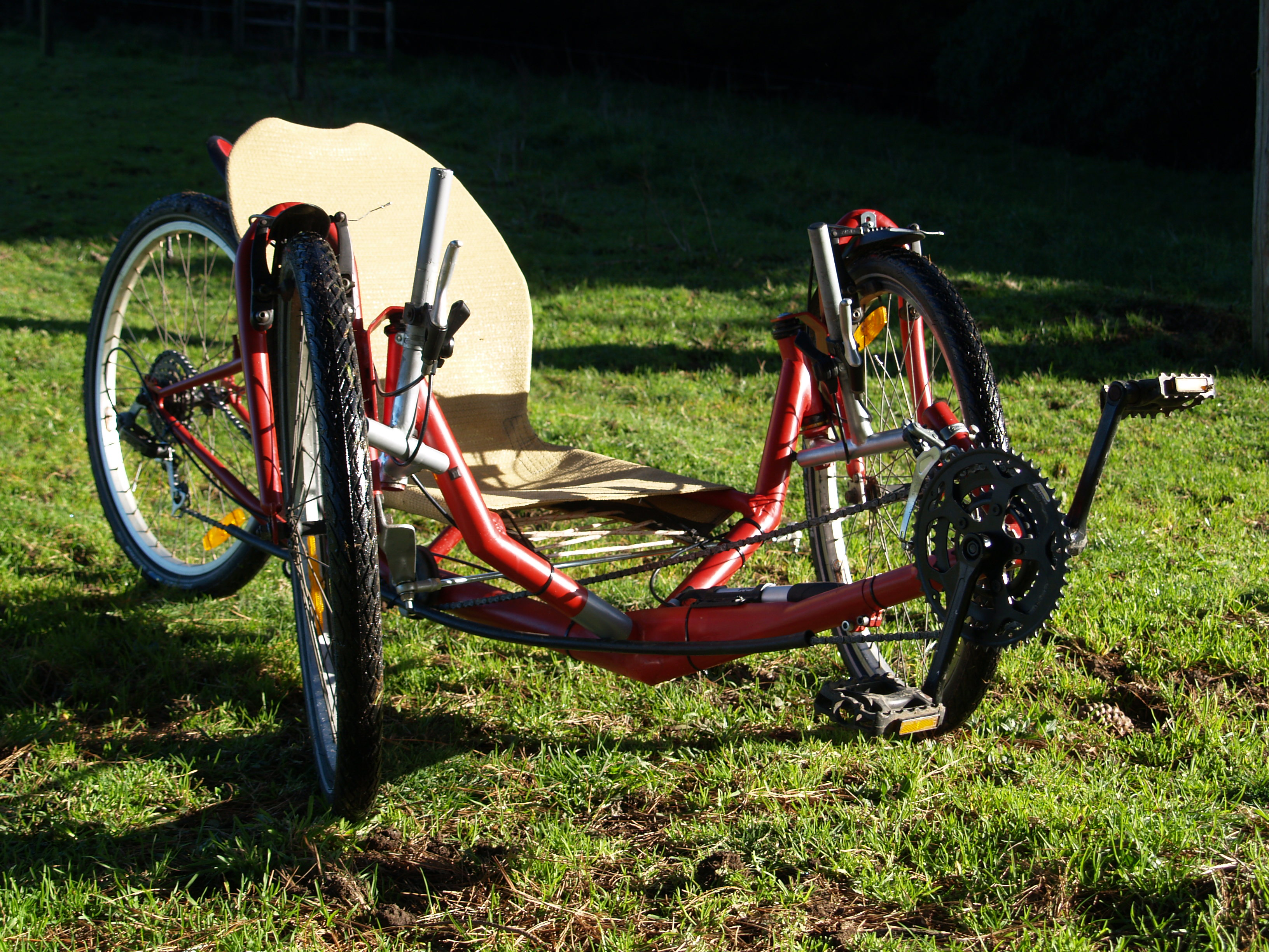 Home built tadpole recumbent trike. This trike is made from two 24" MTB's.